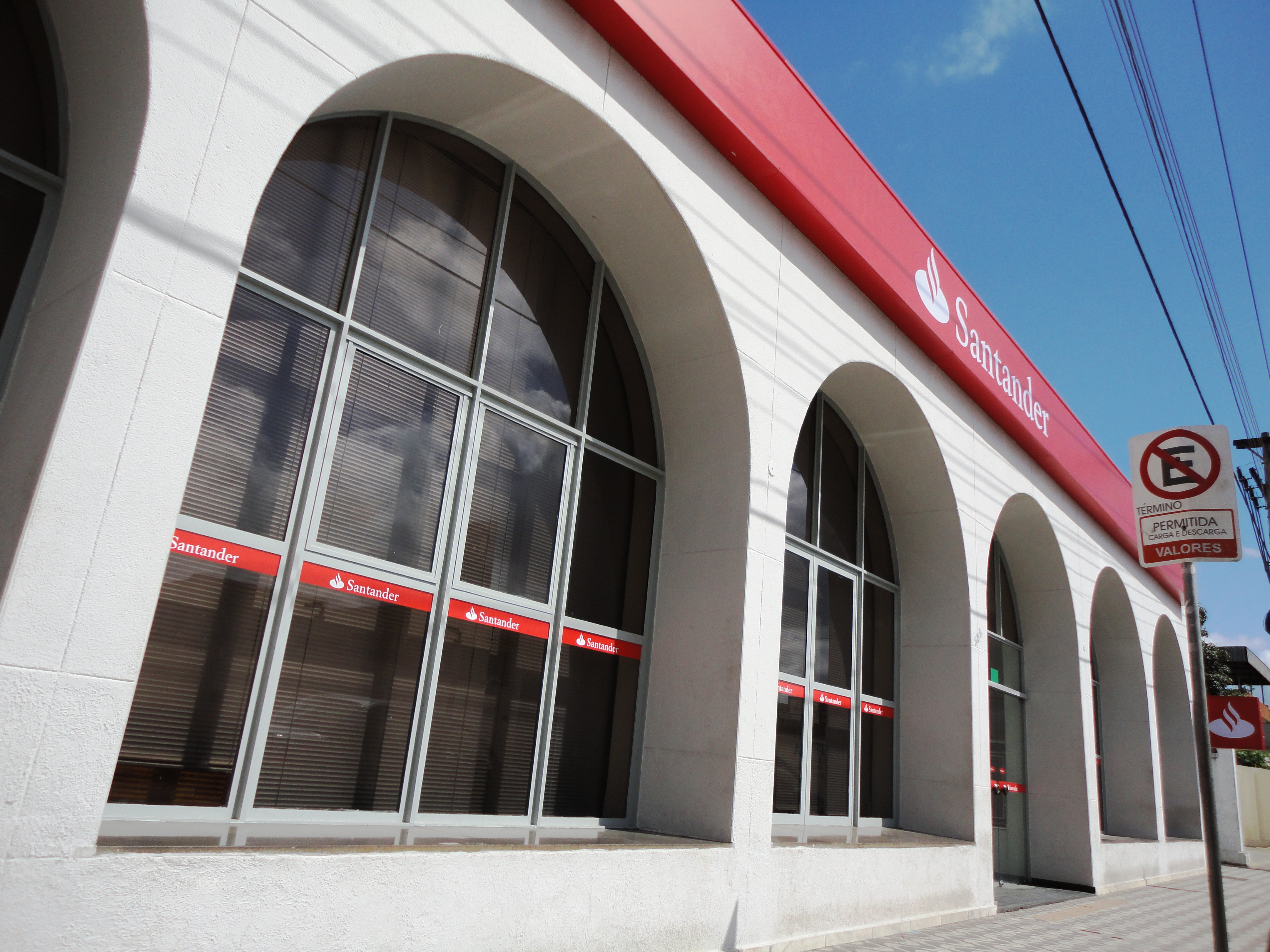 Santander Bank of Coronel Fabriciano, Minas Gerais, Brazil.